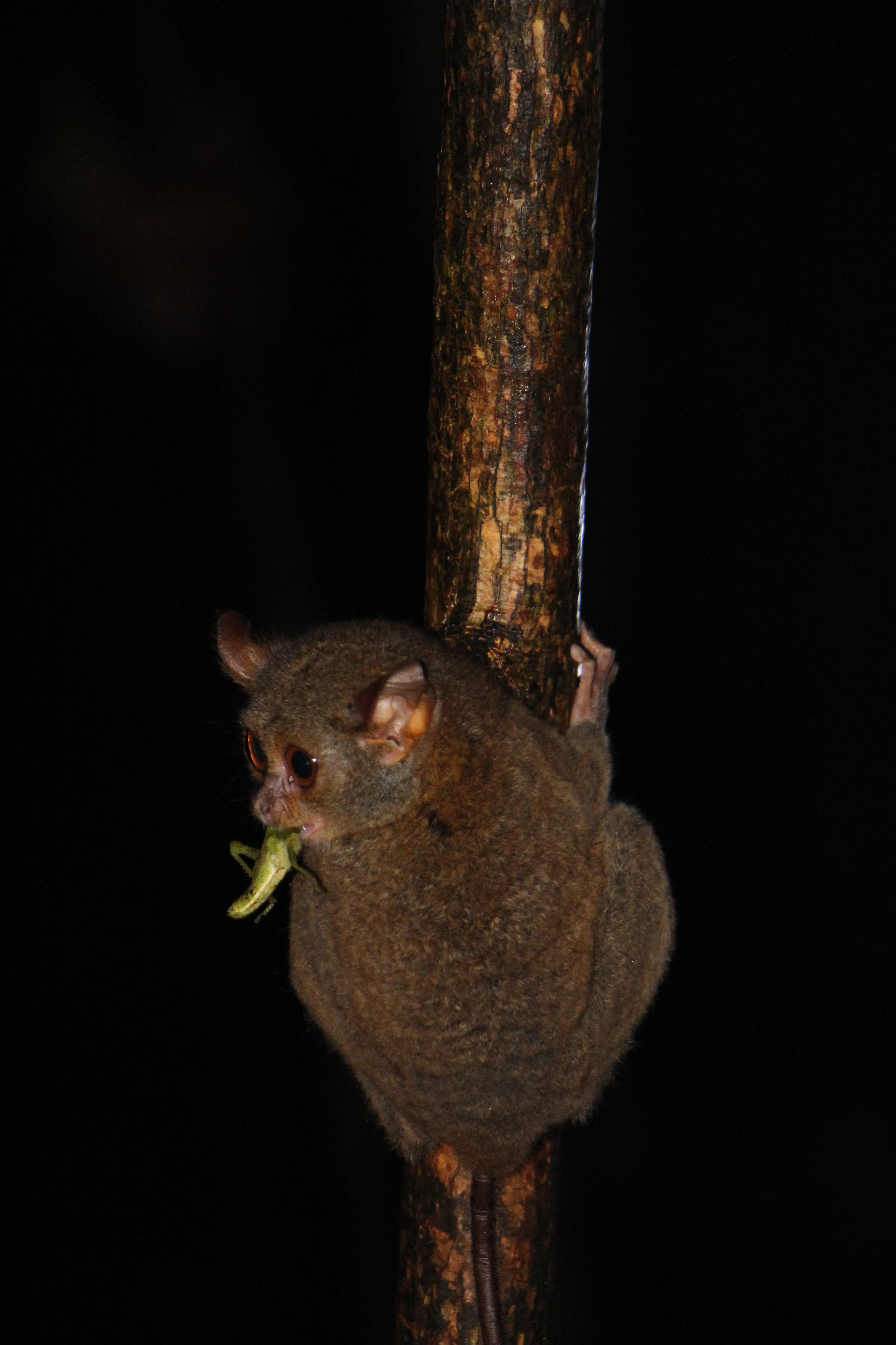 sulawesi tarsius photographed in Tangkoko National Park eating locust